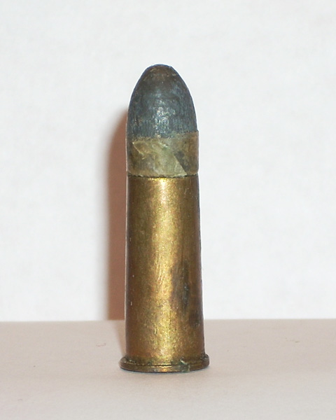 Nagant 7.5 mm cartridge for the Norwegian Nagant M1893 revolver